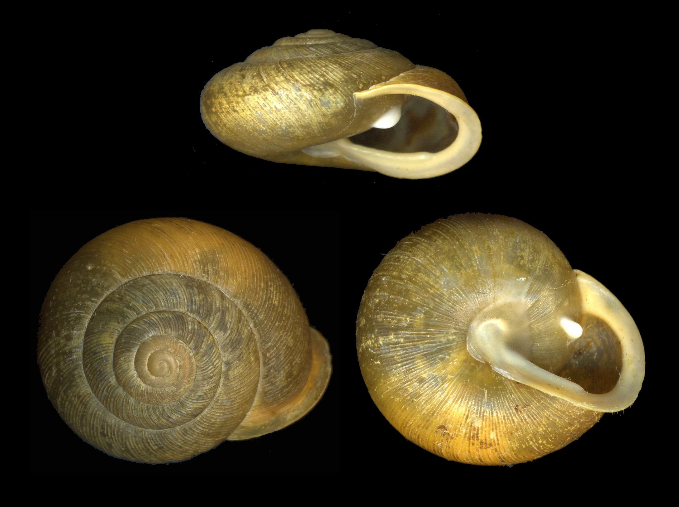 The polygyrid land snail Patera pergraptus, 20 mm in diameter (abt 3/4 inch); from Jackson County, Florida, USA; 1950. (Naming problem: isn't it Patera perigrapta Syn. Patera perigraptus ?